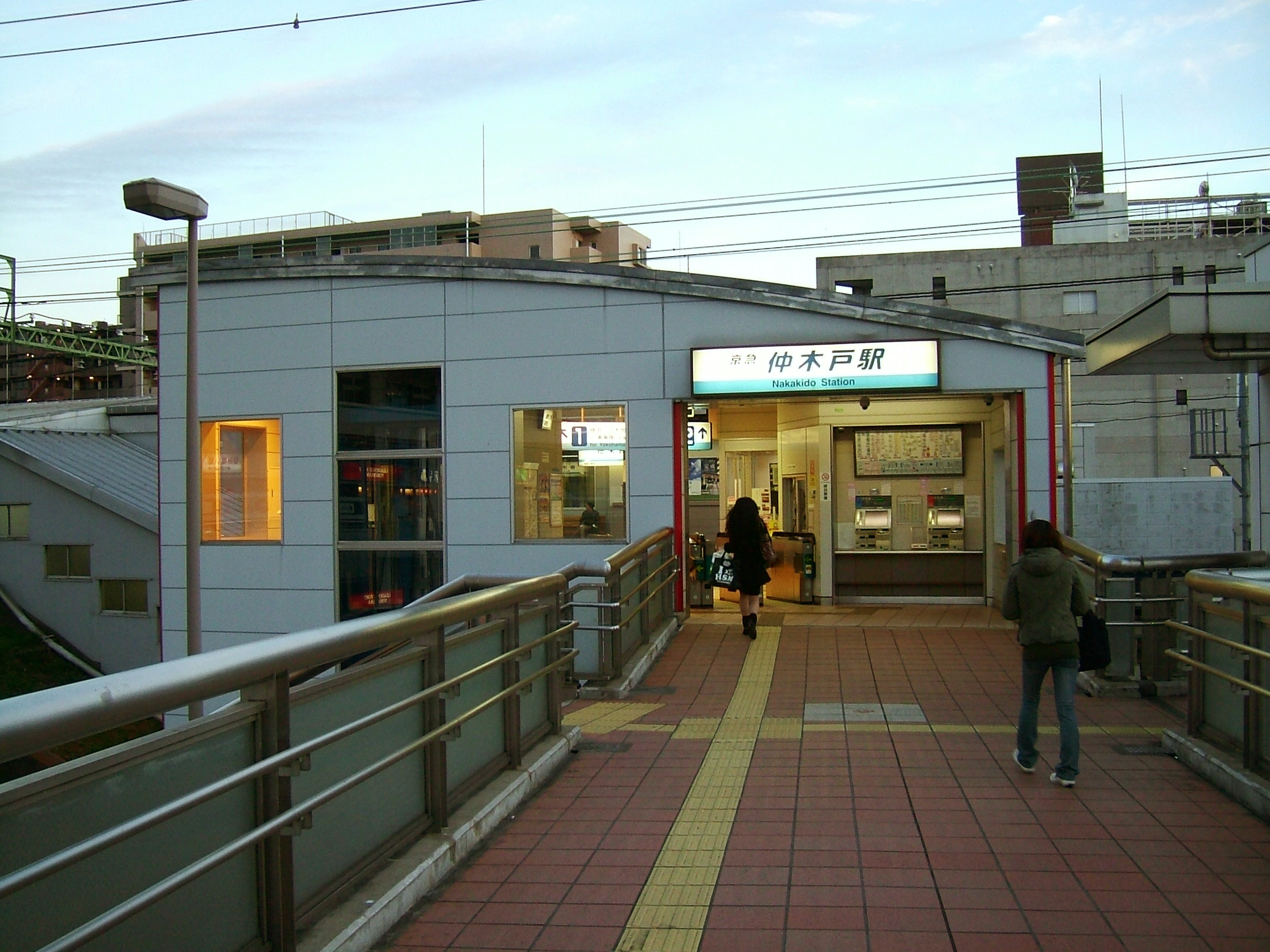 Naka-Kido Station entrance (Keihin Electric Express Railway Main Line)